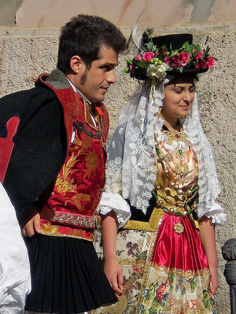 folk sardinia